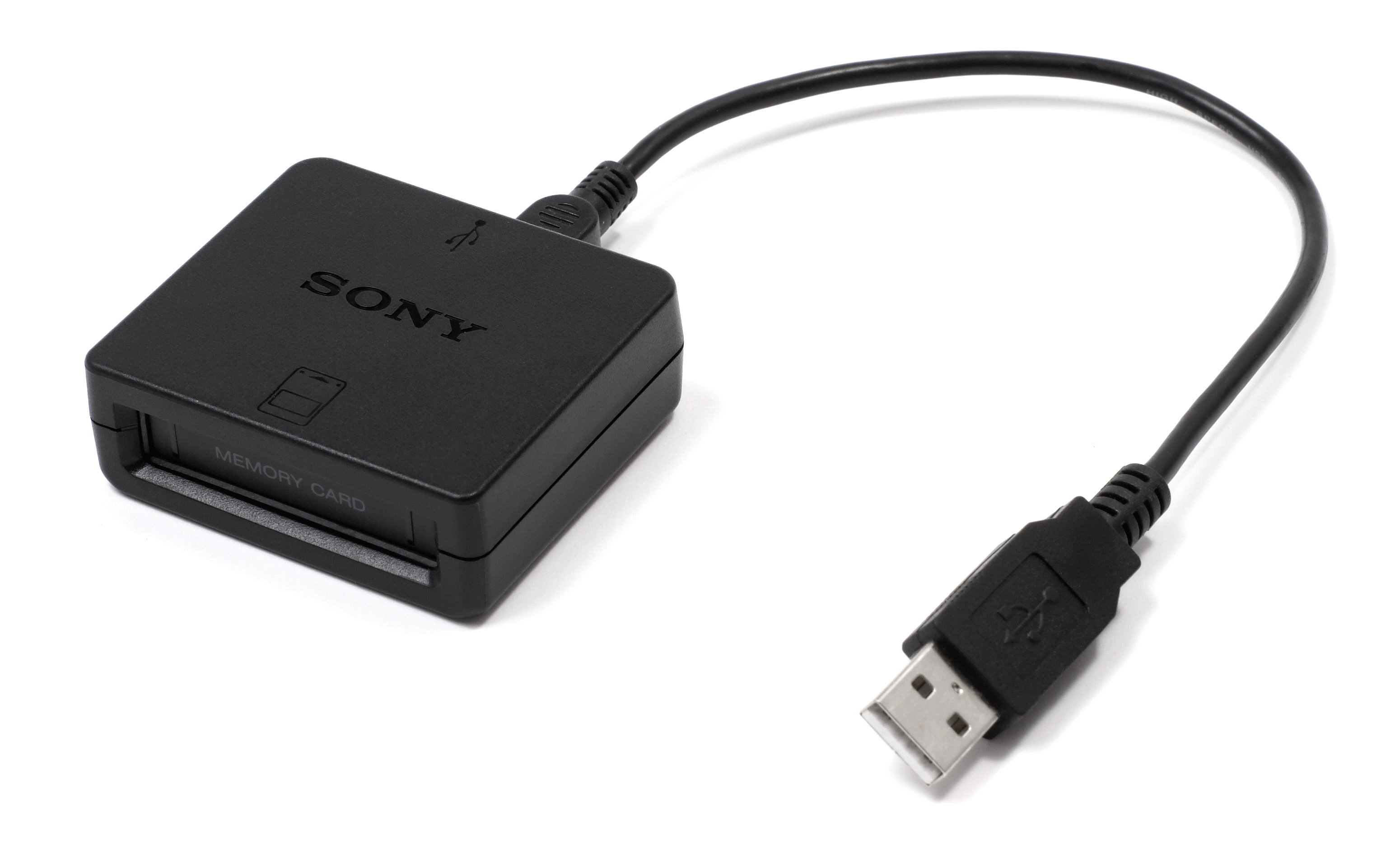 The PS3 memory card adapter, which lets you attach PlayStation and PS2 memory cards to the console.